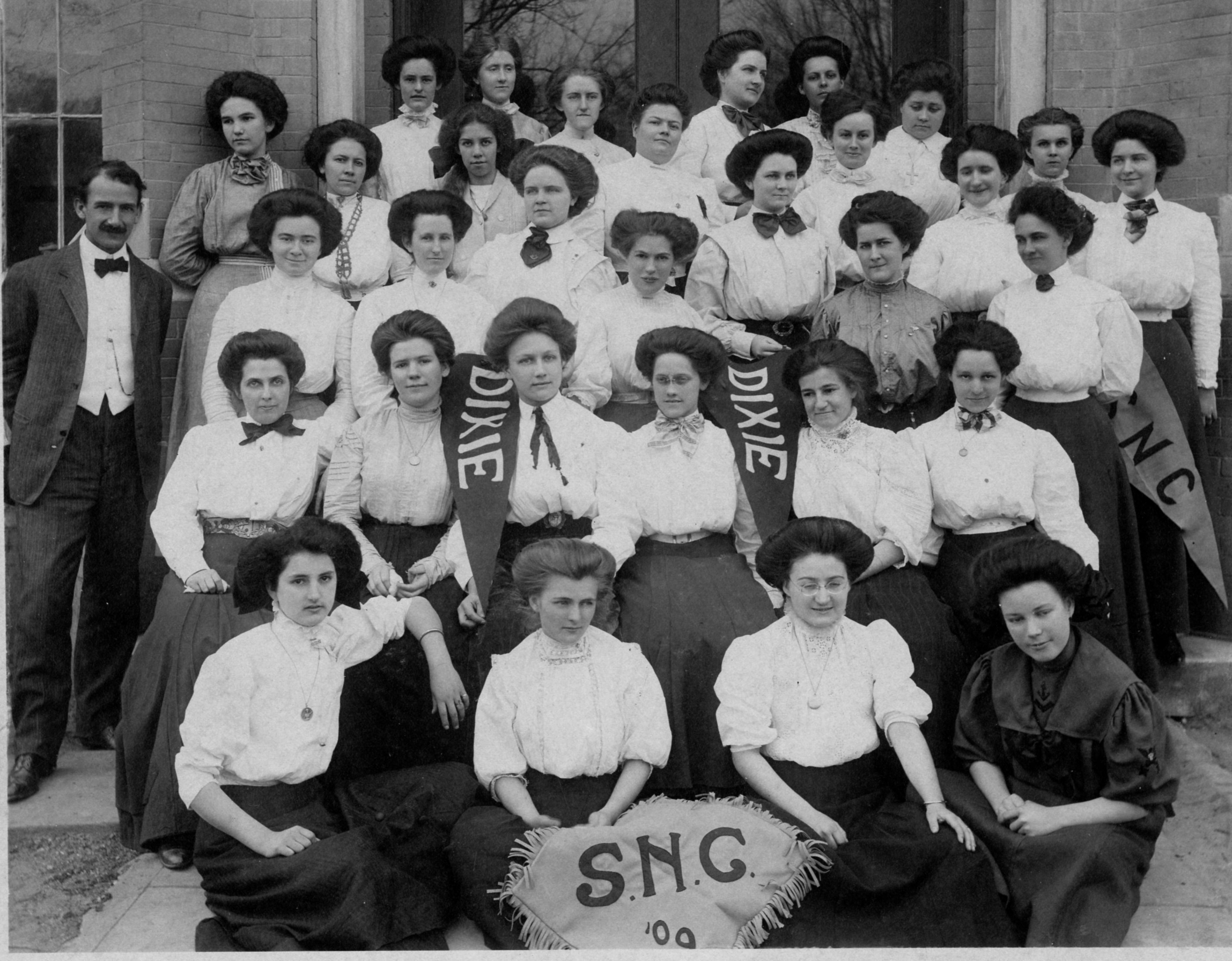 Public domain; released by the University of North Alabama Archives. Dixie Club, State Normal College at Florence, Alabama (now University of North Alabama.)